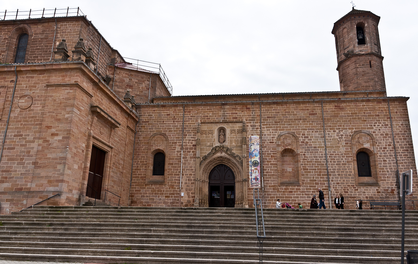 View of Church of Santa Maria in Linares (Spain).